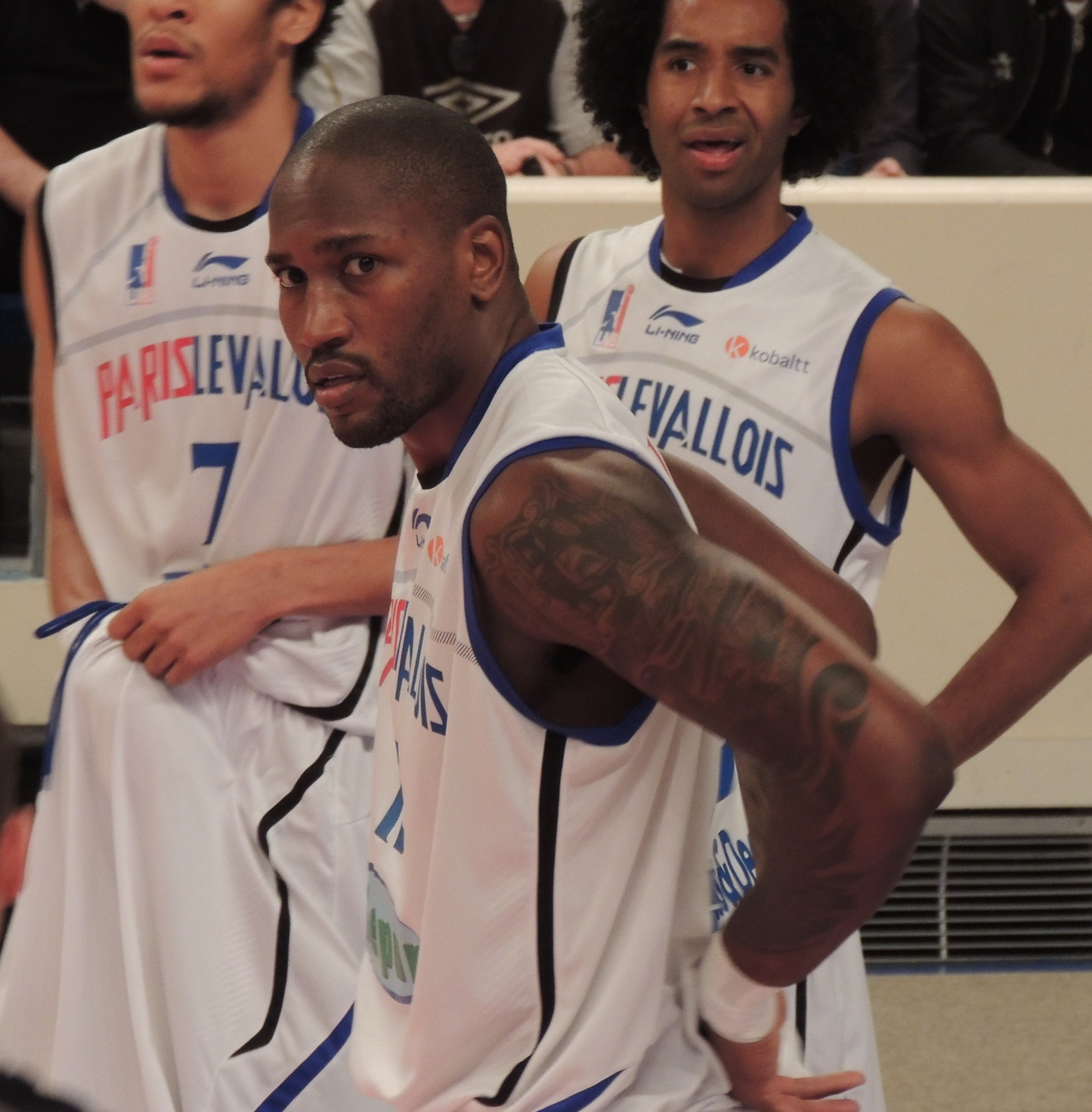 Jawad Williams playing in a match against Le Havre